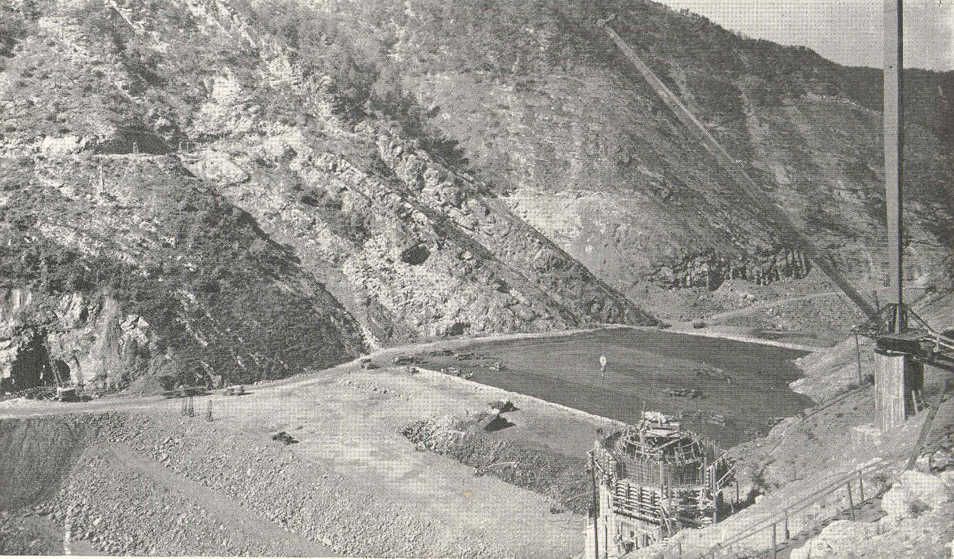 TVA's Watauga Dam under construction in the 1940s. Completed in 1948, the dam impounds the Watauga River in Carter County, Tennessee, USA.